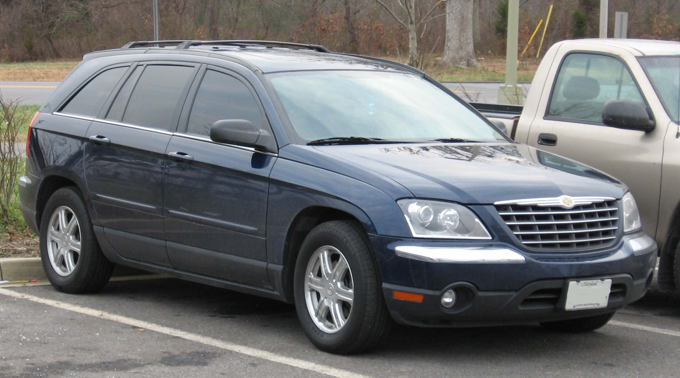 2004-2006 Chrysler Pacifica photographed in USA.